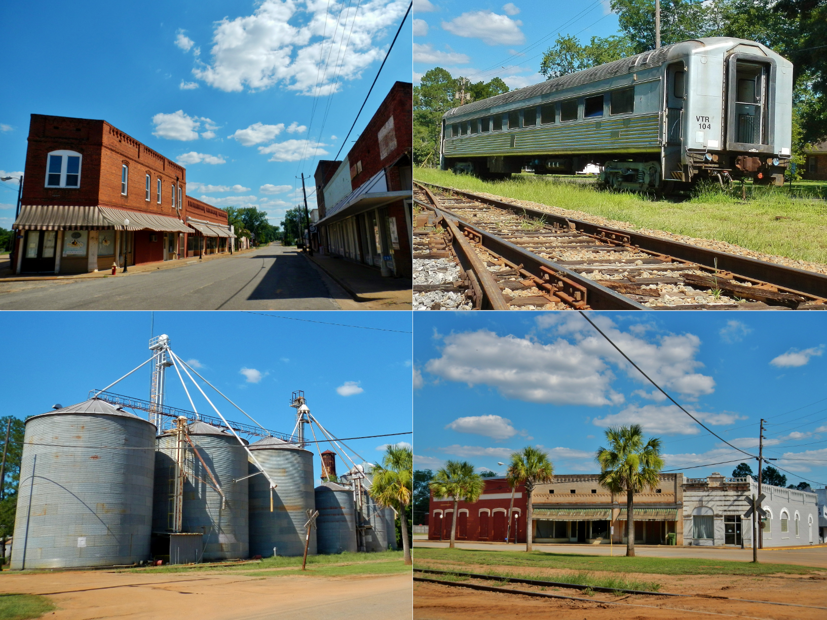 This is a photo collage of Shellman, GA